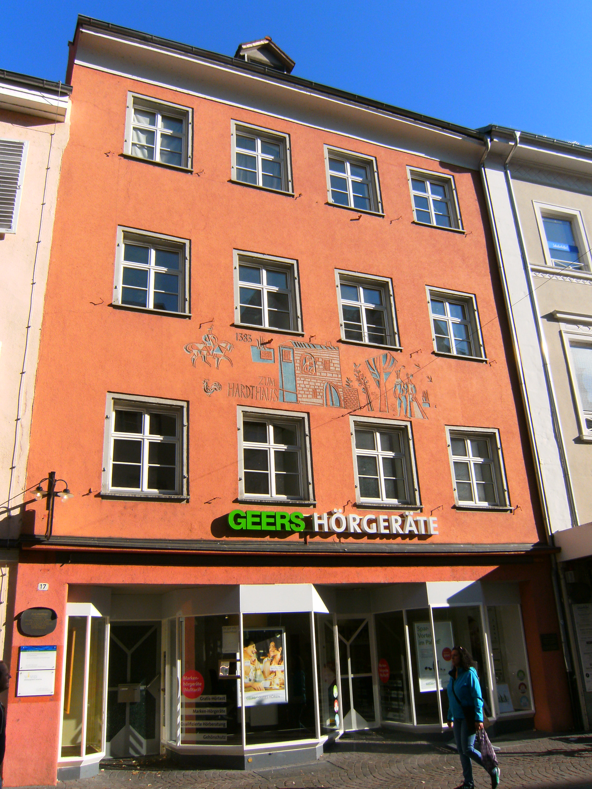 In Konstanz, Lake Constance, Germany in the street Hussenstraße 17 the house Zum Hardthaus is located. Here lived the physician and therapist Franz Anton Mesmer from 1812 to 1814.